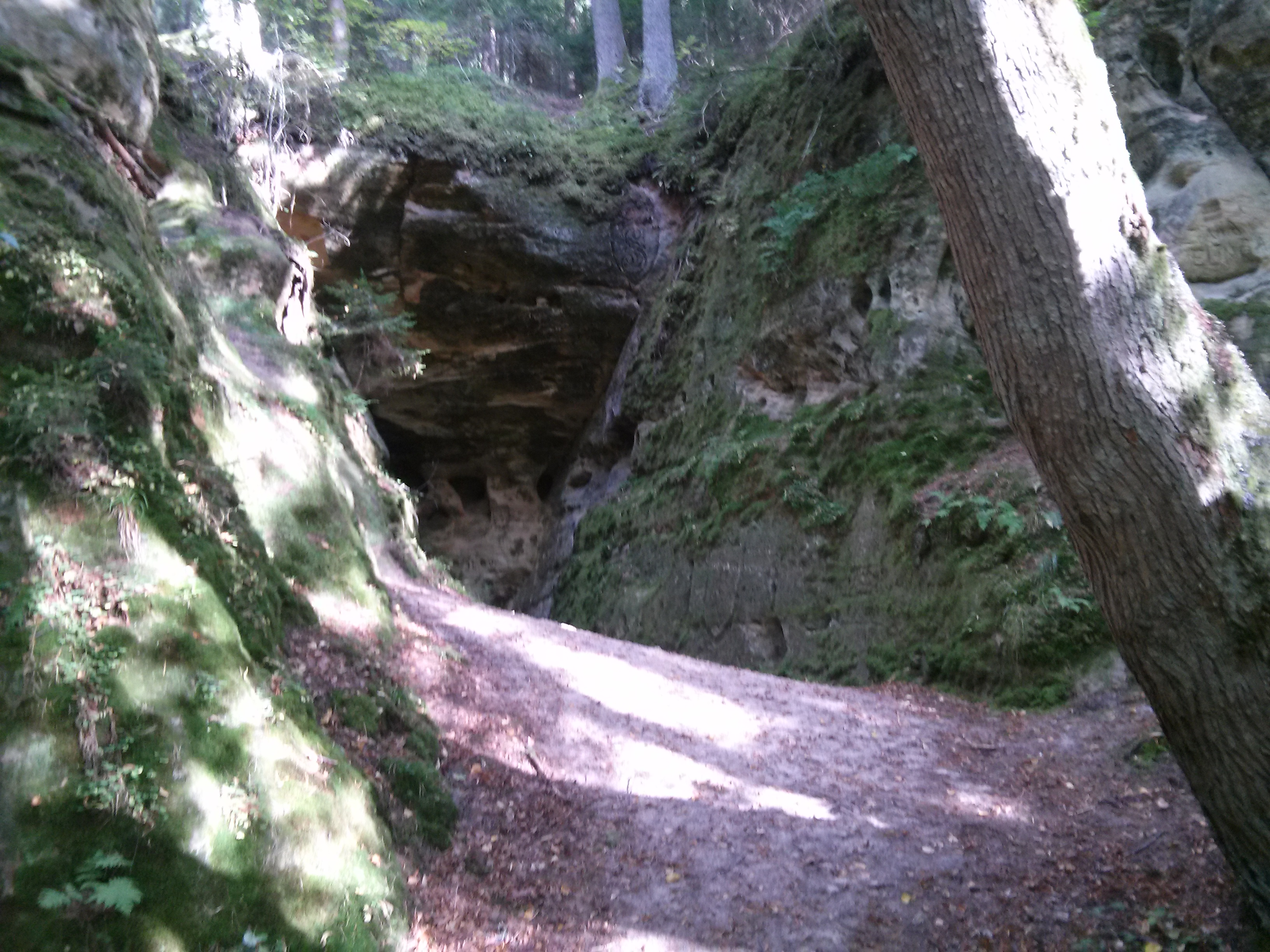 Līču-Laņģu cliff gorge. A cave in the Līču-Laņģu rock complex.